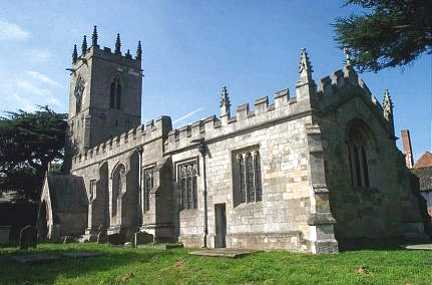 Saundby, St Martin of Tours Church. This Church is now disused and cared for by the Church Conservation Trust.